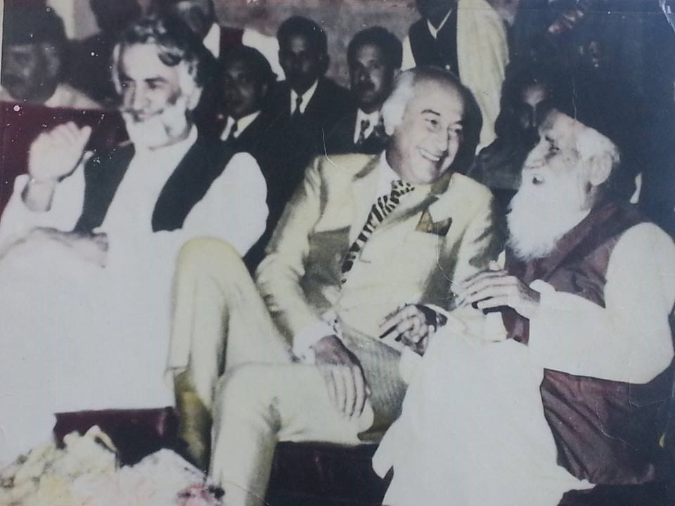 Sardar Muhammad Amin Khan Khoso With Zulfiqar Ali Bhutto And Nawab Akber Khan Bugti